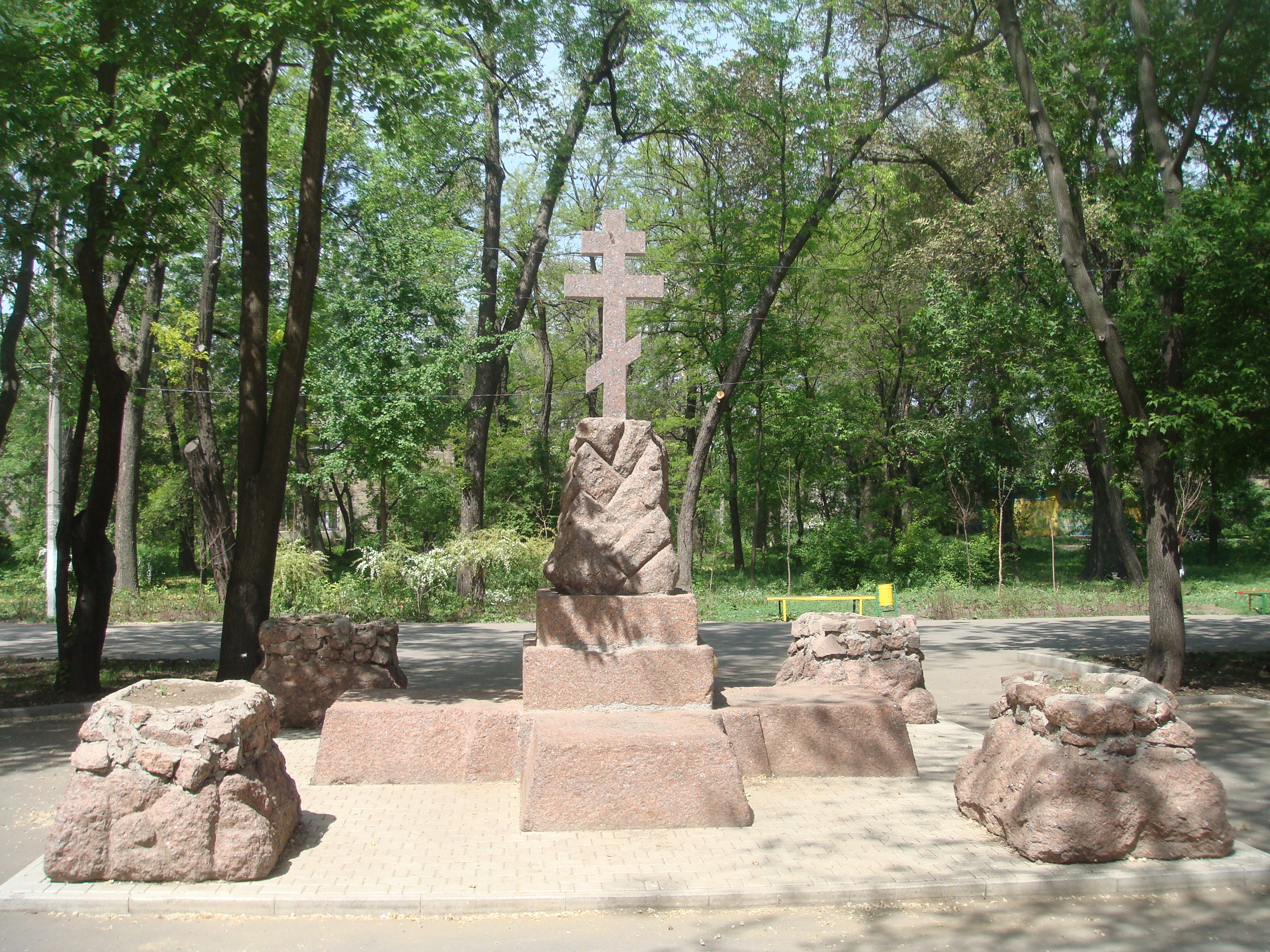 Radezky cross, view from behind. Errected in 2011 at the same place where monument to General Radezky was located in Odessa. Monument was demolished by bolshevists in 1933